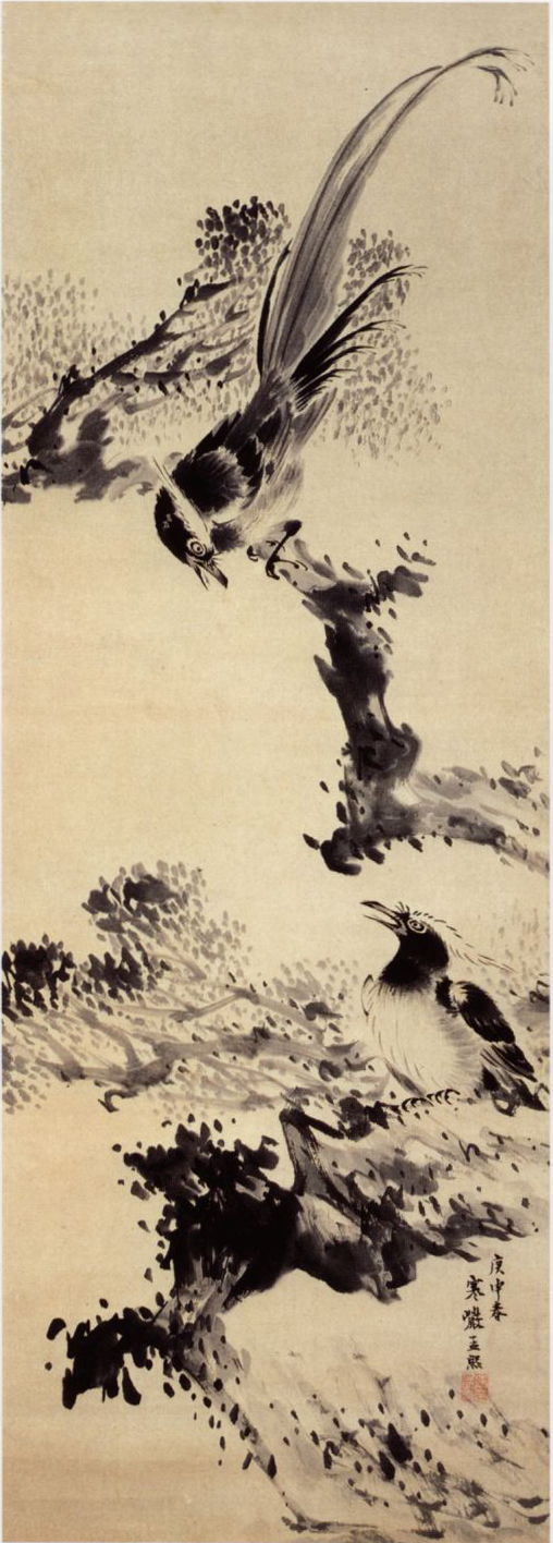 A_painting_of_birds_and_flowers 花鳥図 絹本着色